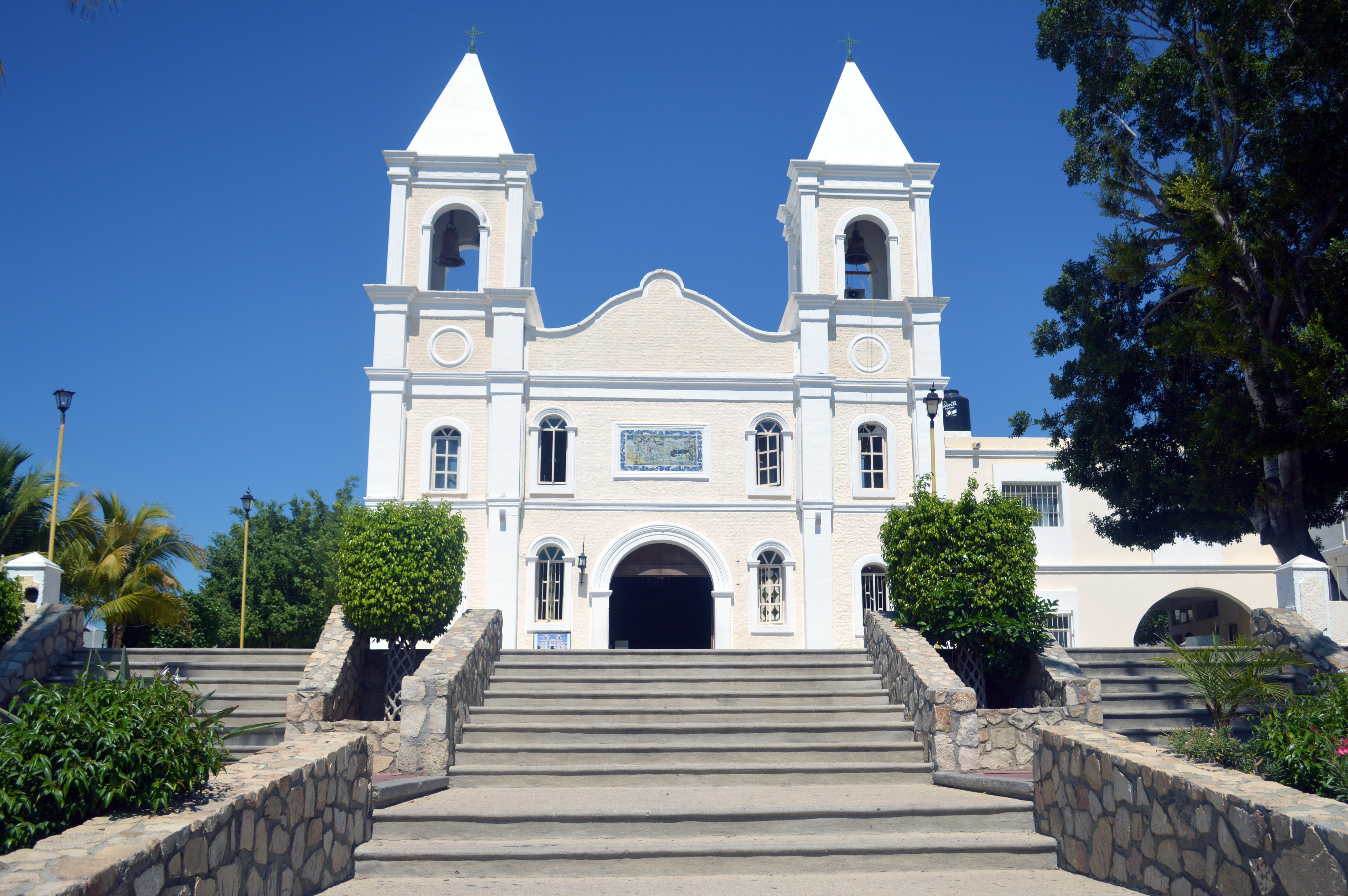 Mission church in the center of San Jose del Cabo, Baja California Sur